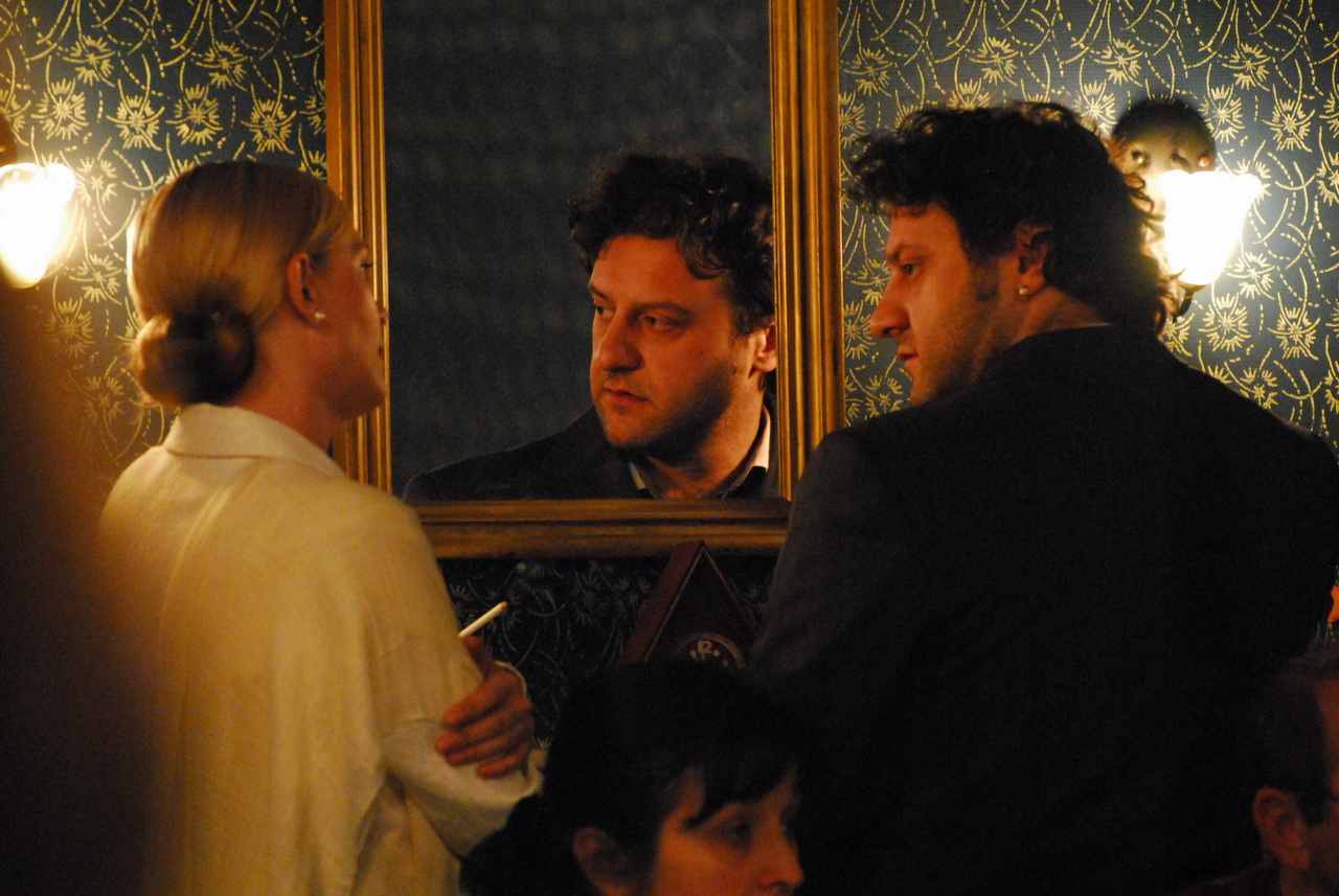 "Ivanov" by Anton Pavlovich Chekhov, directed by Predrag Štrbac, Drama of SNT, Novi Sad, 2007/08; Draginja Voganjac, Milan Kovačević Srpski (latinica): "Ivanov" Antona Pavloviča Čehova u režiji Predraga Štrpca, Drama SNP-a, Novi Sad, 2007/08; Draginja Voganjac, Milan Kovačević Српски (ћирилица): "Иванов" Антона Павловича Чехова у режији Предрага Штрпца, СНП Драма, Нови Сад, 2007/08; Драгиња Вогањац, Милан Ковачевић